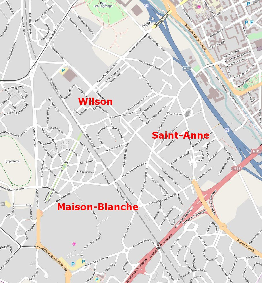 Reims Maison-Blanche France This map may be incomplete, and may contain errors. Don't rely solely on it for navigation.